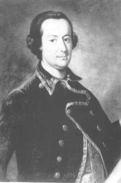 Edmond Fitzgerald, 20th Knight of Glin